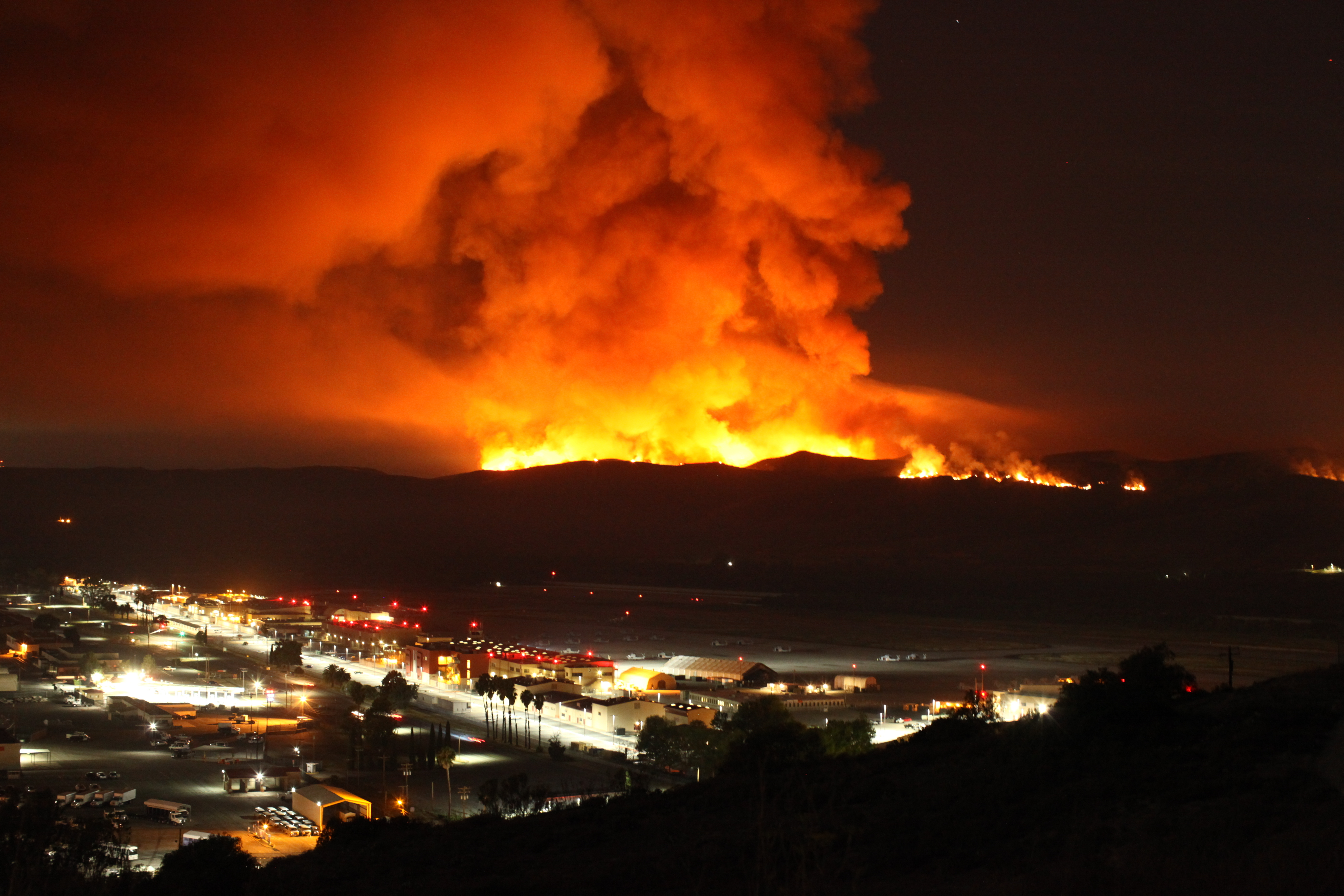 The Las Pulgas Fire burns behind the Marine Corps Air Station at Camp Pendleton, Calif., 16 May, 2014. The Las Pulgas Wildfire on Camp Pendleton has burned more than 15,000 acres and is the largest fire in San Diego County history. (U.S. Marine Corps photo by Sgt. Ethan Johnson/MCIW-MCB CamPen COMCAM/Released)